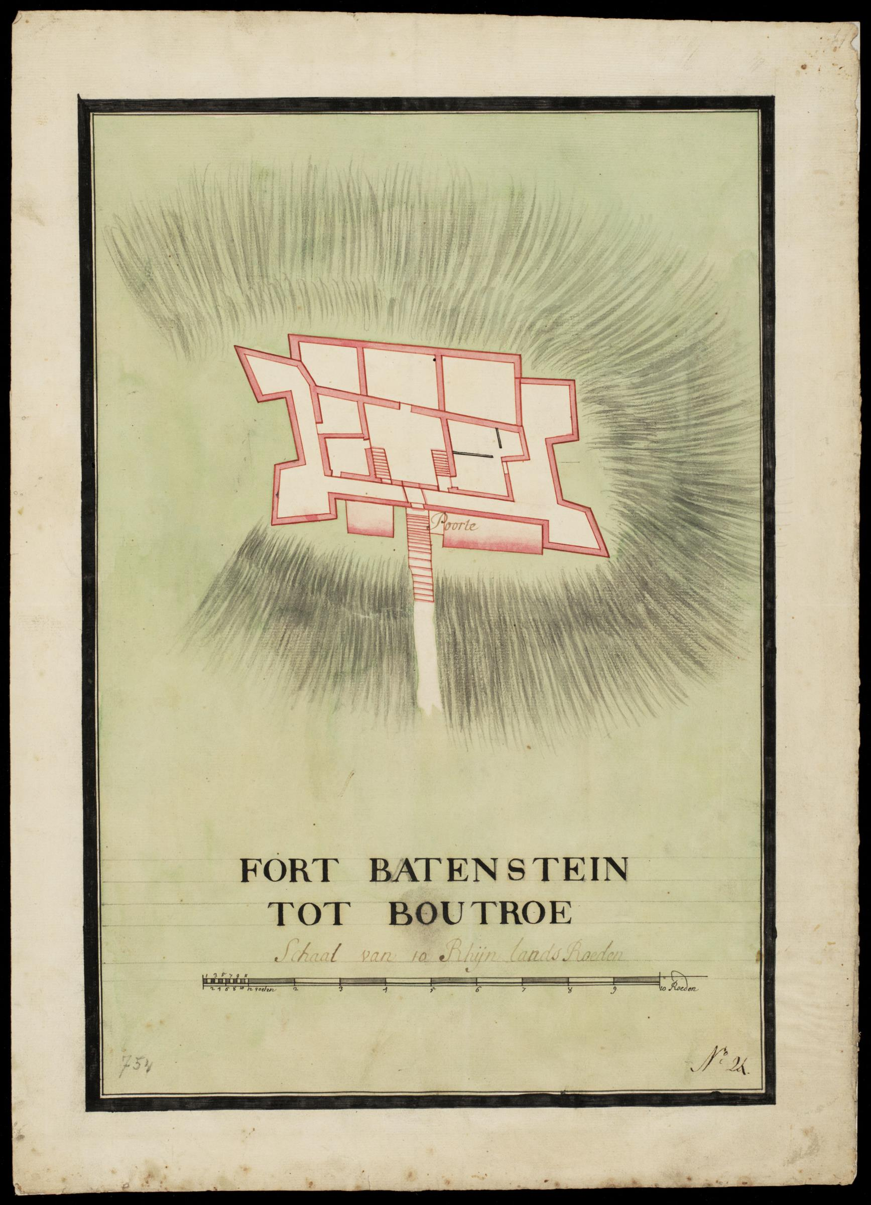 Floor plan of the Batenstein fort at Boutrou. Title in the Leupe catalogue (NA): Het Fort Batenstein tot Boutroe. Fort Batenstein tot Boutroe. Bottom right: No. 24. Bottom left: 754 [in pencil]. Notes on reverse: No. 16. Fort Batenstein. Register 8, Deel 1, Folio 33, Portefeuille .. [inscribed on a blue label] / 454 [stamped in bold on a small label].